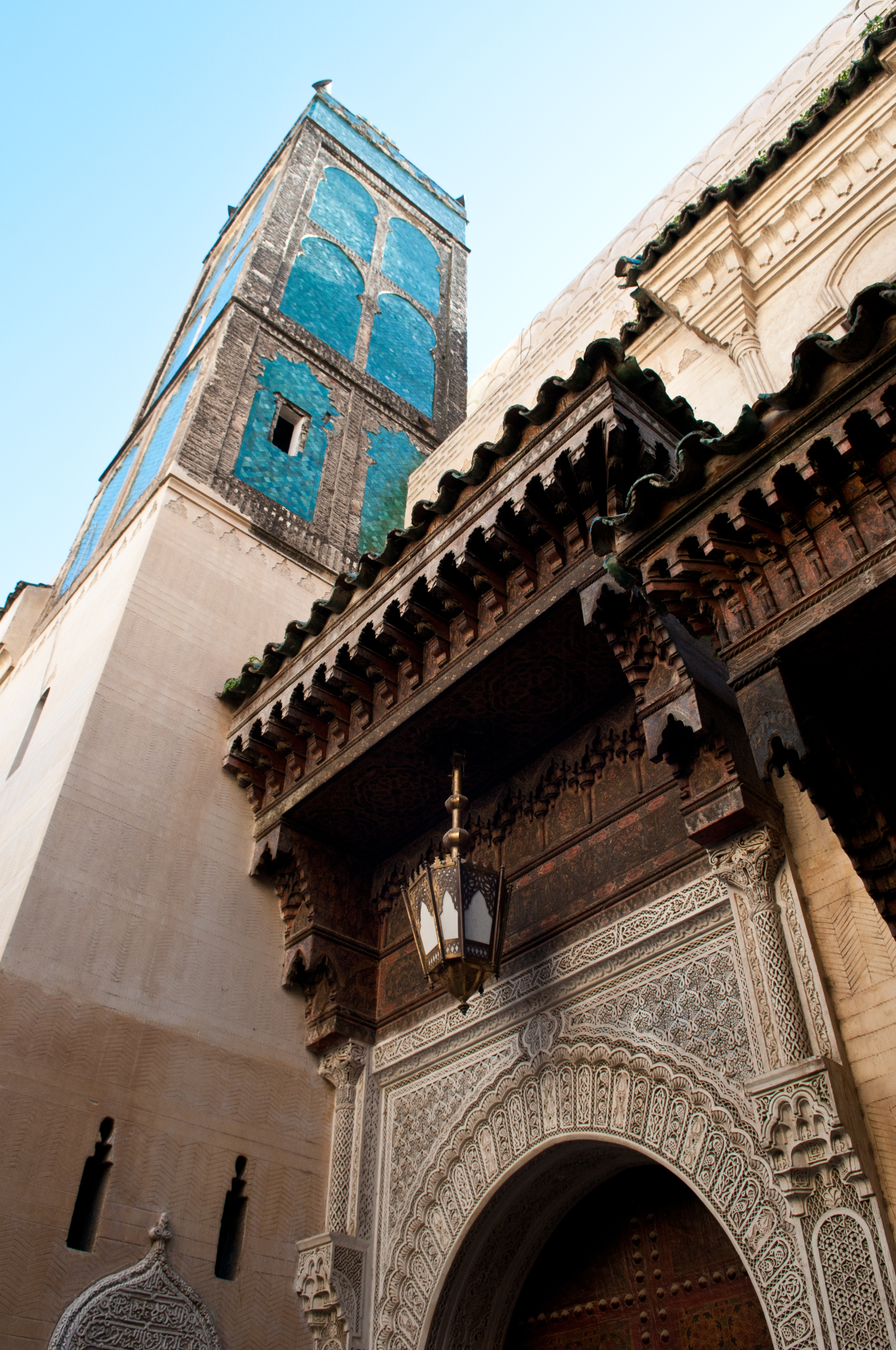 A mosque minaret. Mausoleum of Ahmed Tijani (ca. 1737-1815), sufi theologian